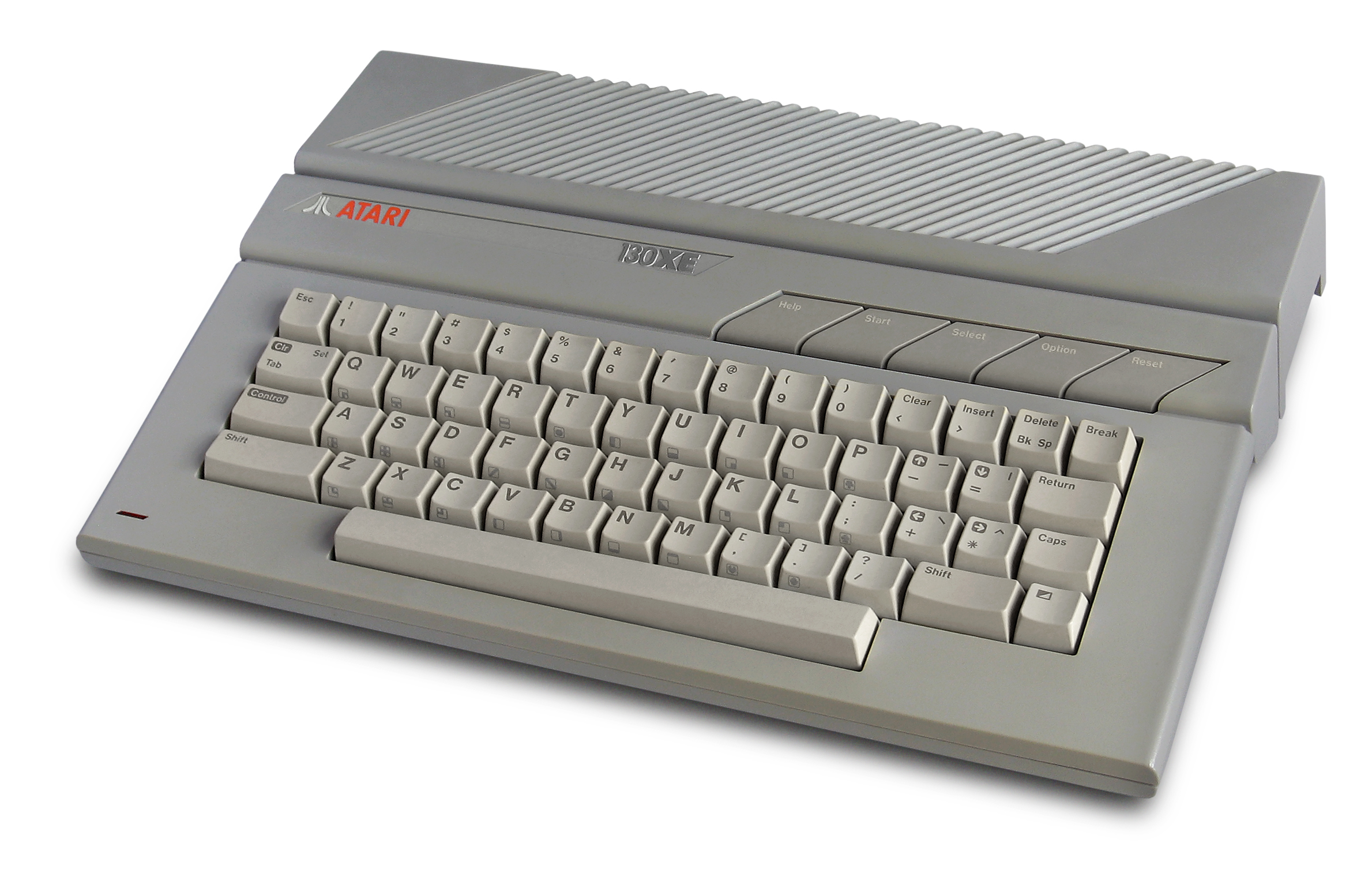 Atari 130XE Computer